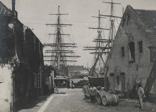 Grønlandske Handels Plads in the 1900s at Christianshavn in Copenhagen, Denmark